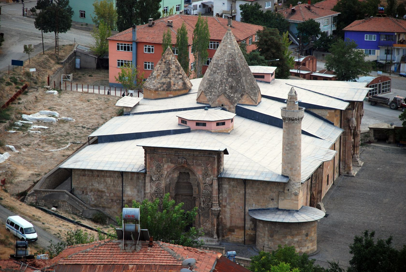 Divriği, mosque and hospital from castle